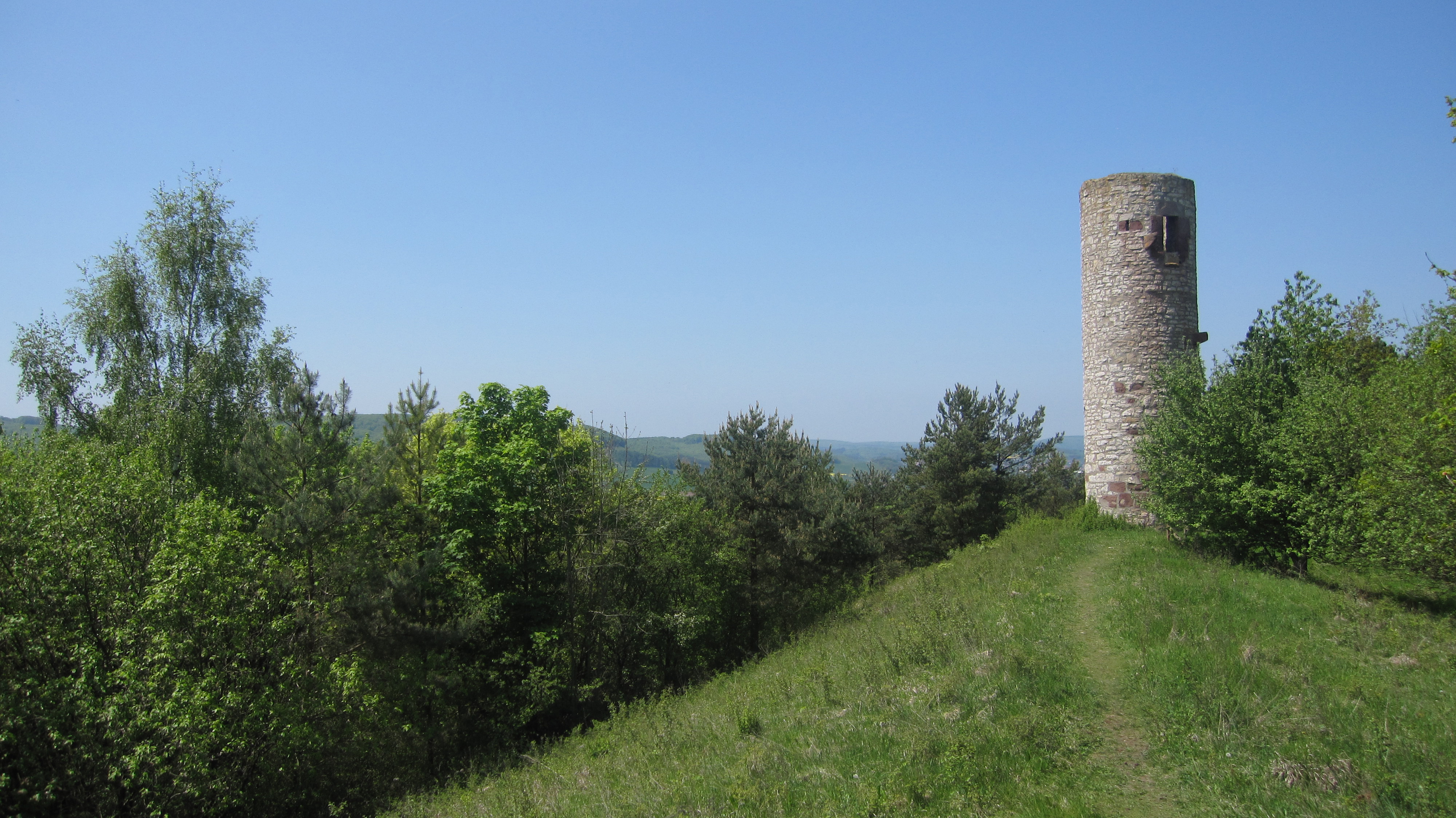 Heinturm (Heintower) on top of the Heinberg near Warburg-Ossendorf, North Rhine-Westphalia, Germany, built from 1430 on. Photograph regarding the 250th anniversary of the Battle of Warburg in 2010. The battle was fought on 31 July 1760 during the Seven Years' War at the Heinberg near todays constituent community Warburg-Ossendorf.